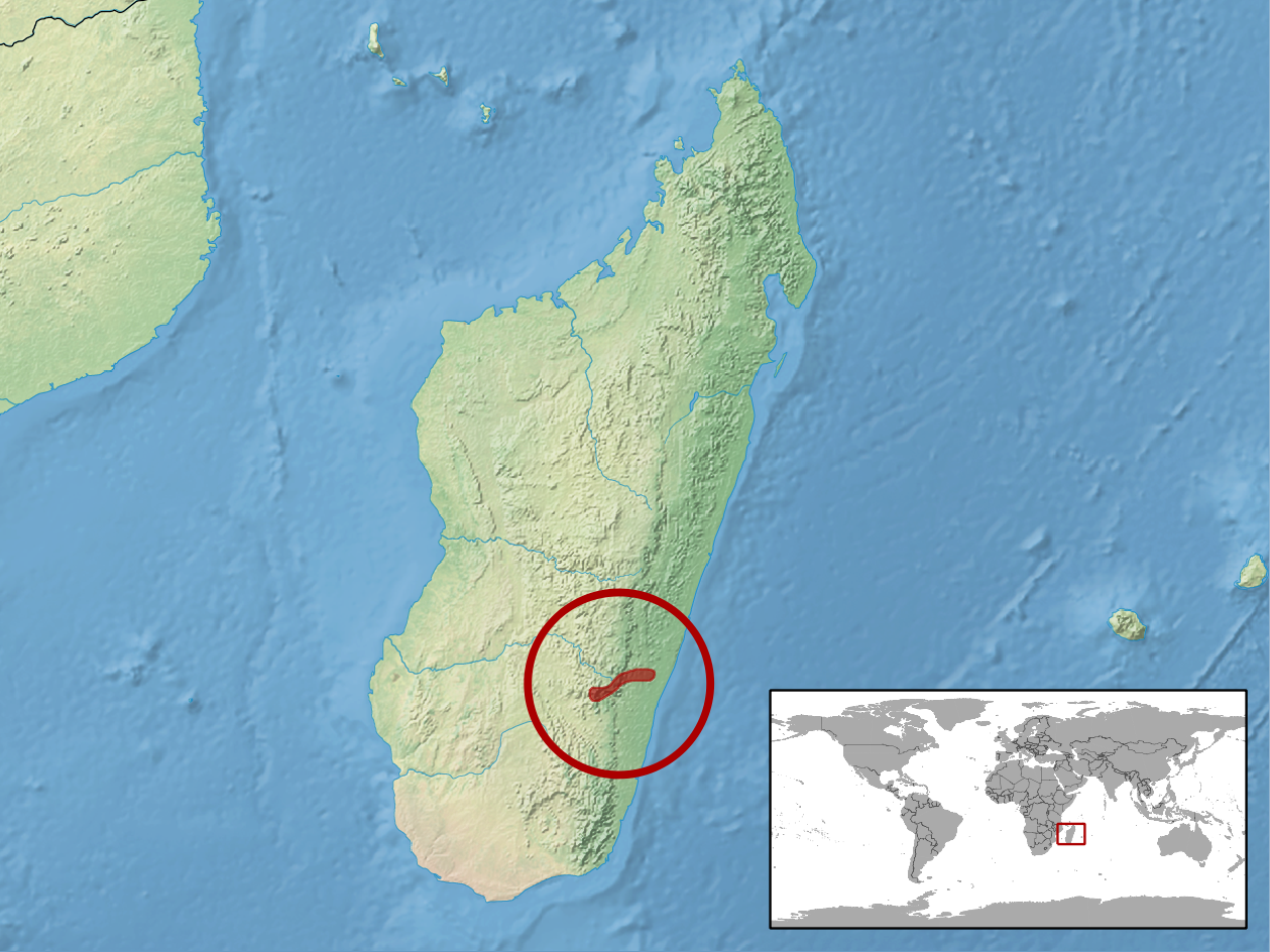 geographic distribution of Calumma fallax (Native: Madagascar)